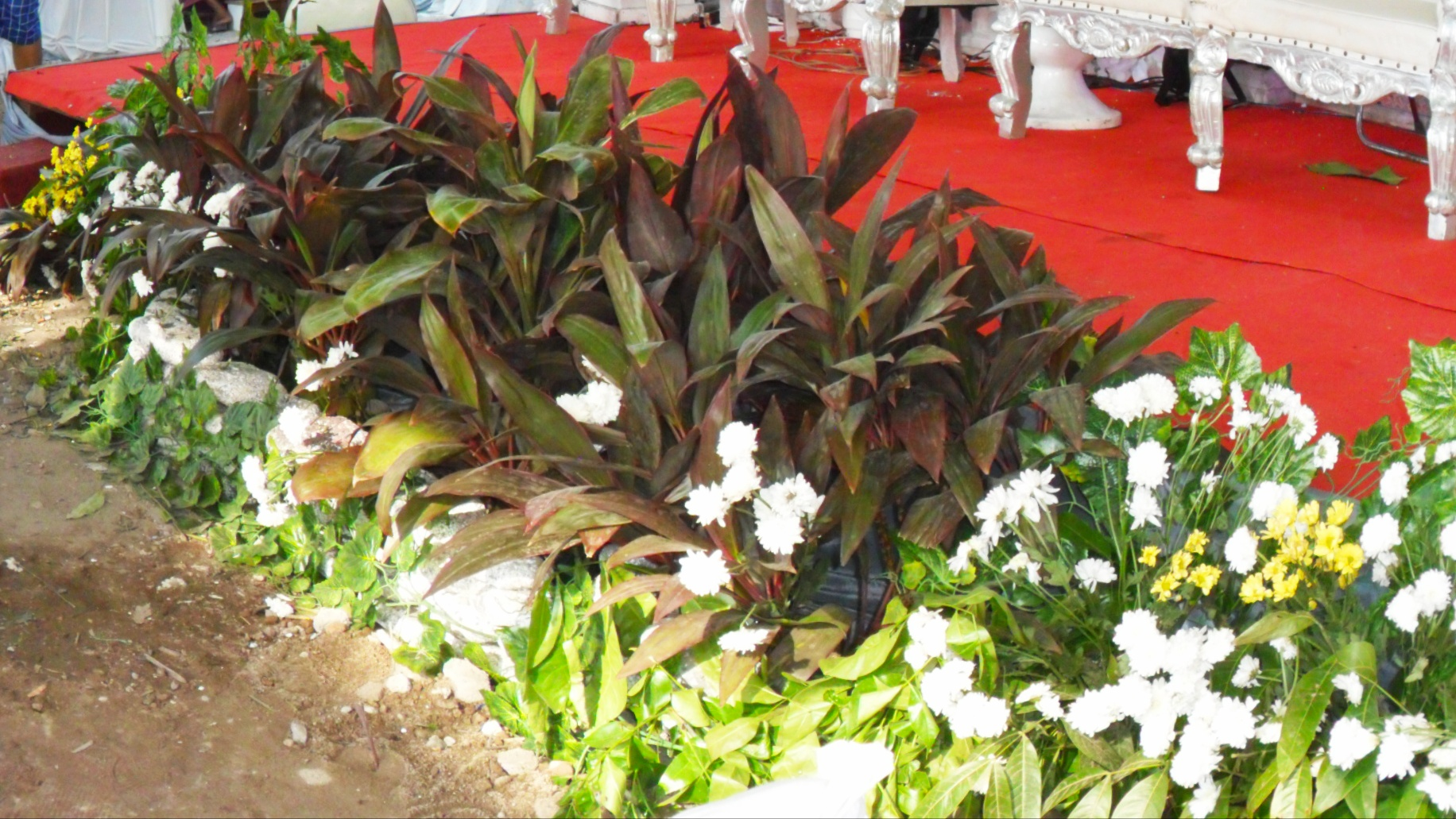 Ti tree at the wedding decoration